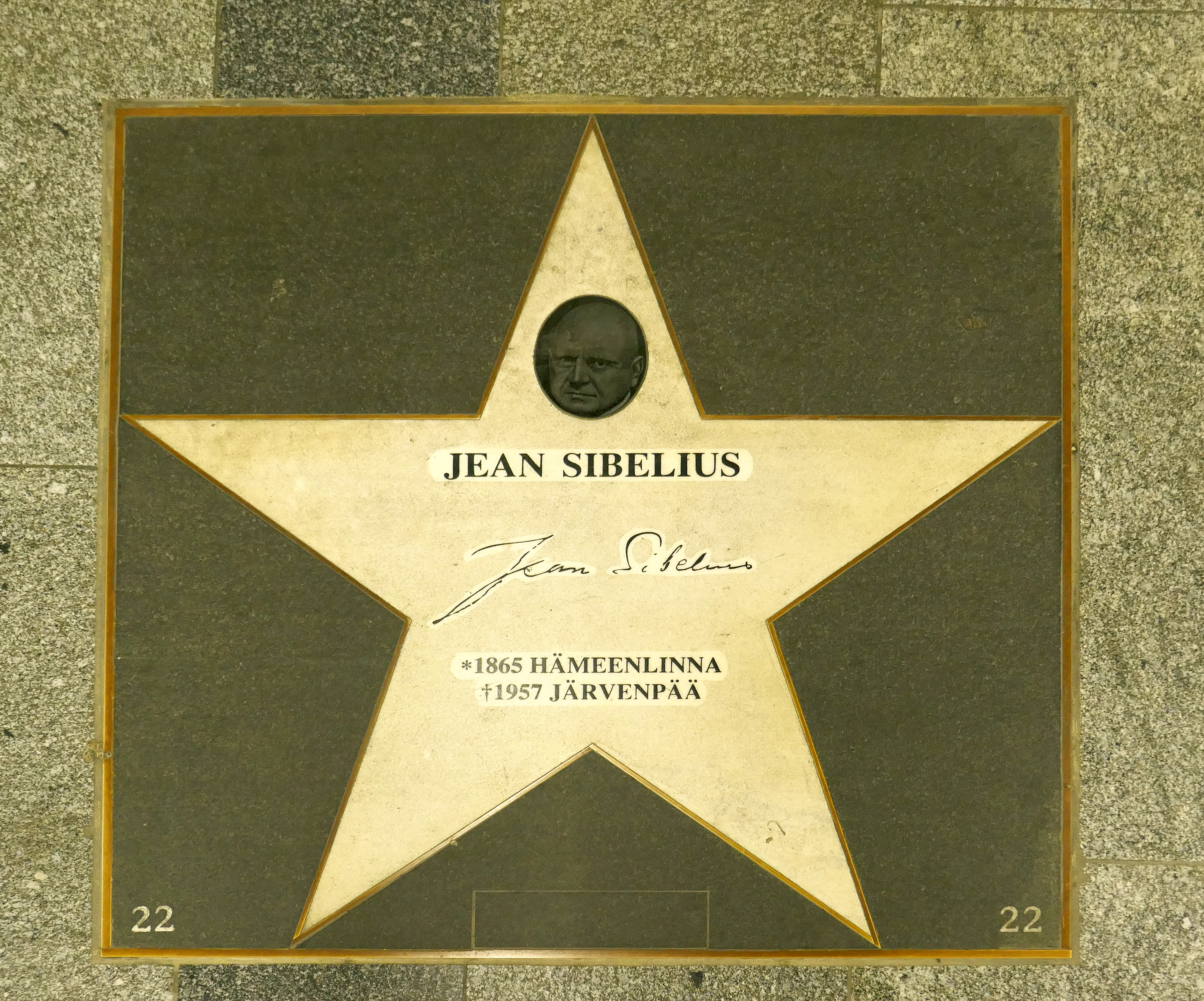 Walk of Fame Vienna Jean Sibelius.